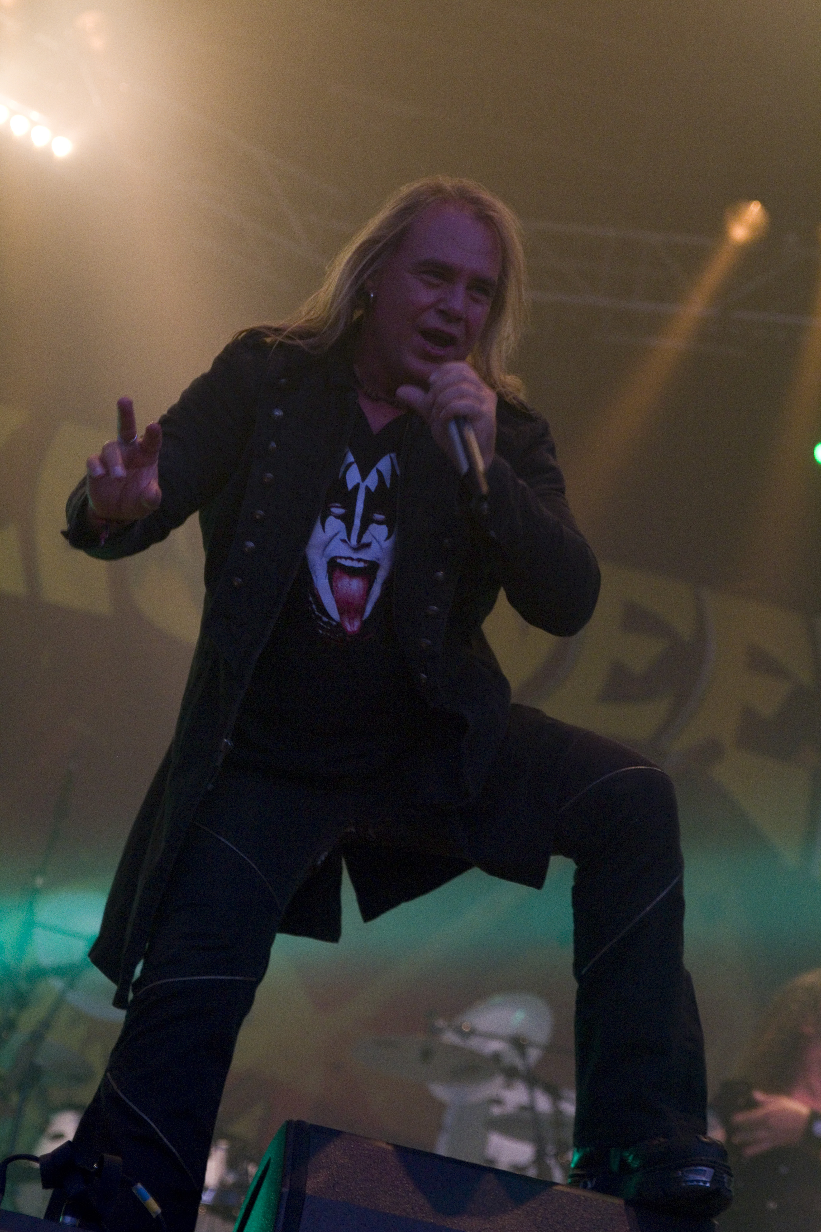 The German power and speed metal band Helloween at the Rockharz Open Air 2014 in Ballenstedt/Germany